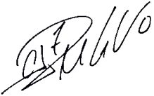 Cristiano Ronaldo signature